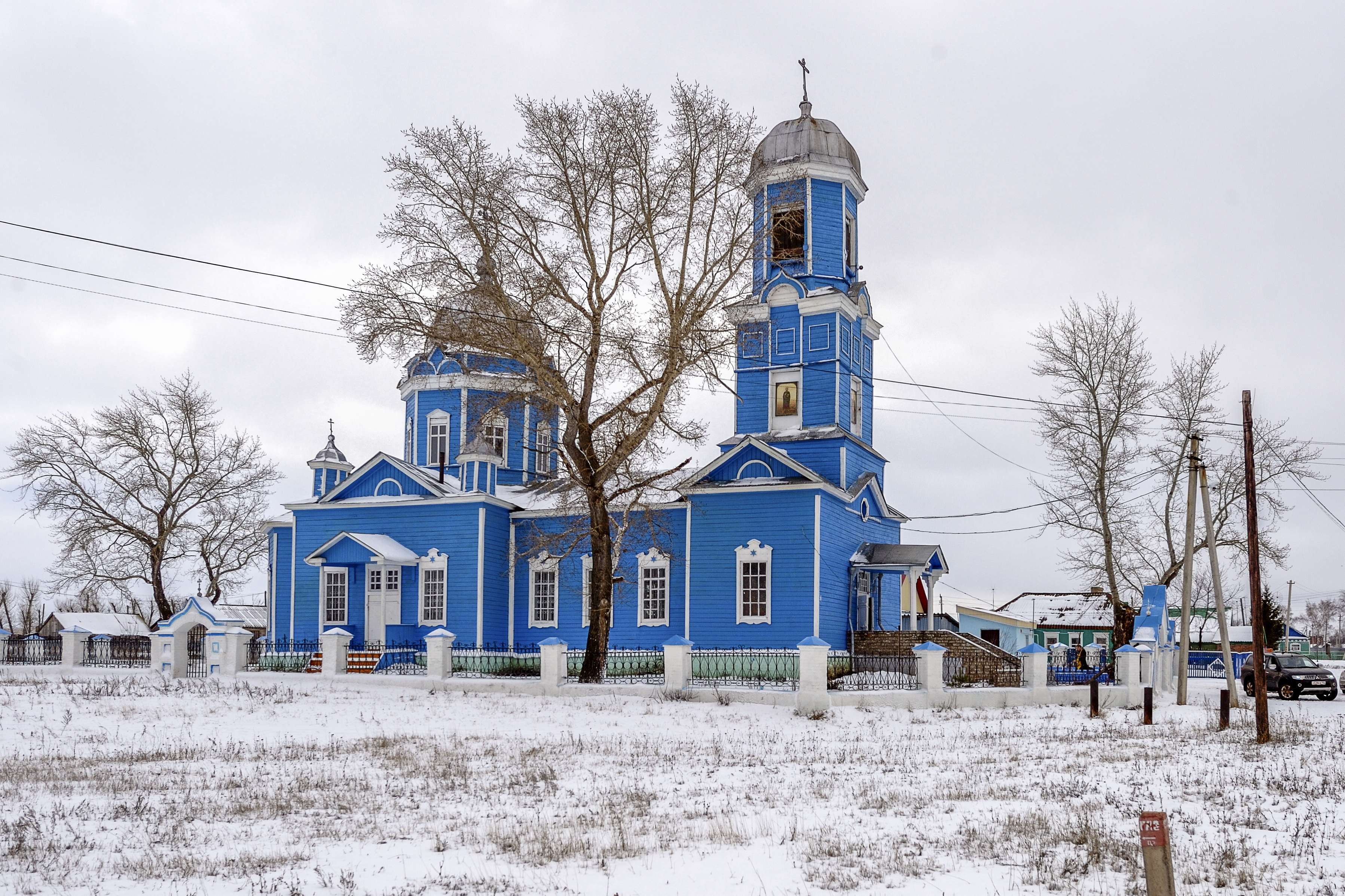 Nordovka